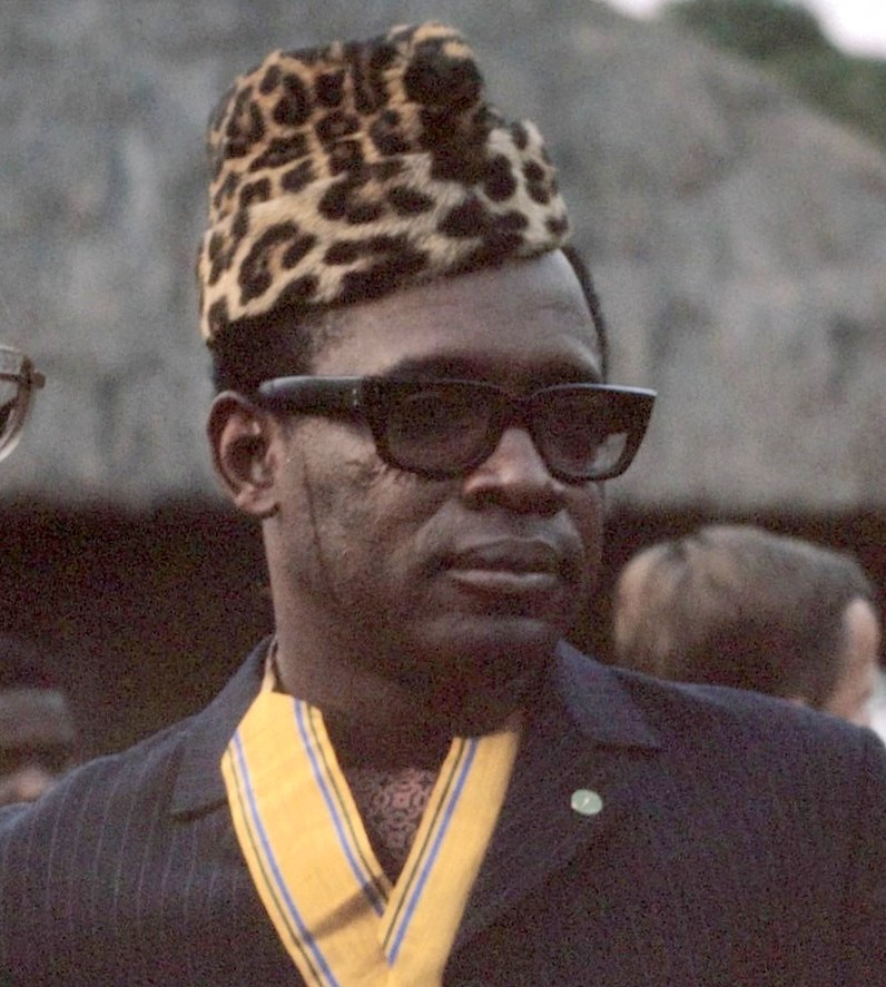 Meeting in the Oval Office between Nixon and President Mobutu Sese Seku of Zaire.